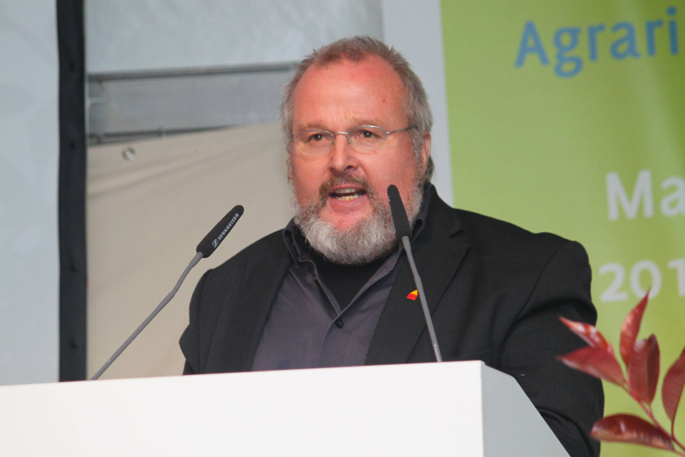 Rolf Wiese, director of the museum